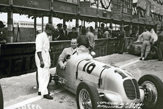 Entry #16 is Paul Pietsch in Maserati 4CM at Targa Florio on 22 May 1938. He did not finish.[1] Pietsch was racing 4CM this year.[2]